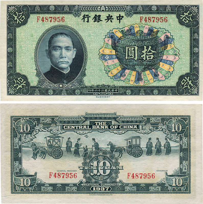 A banknote from the Central Bank of China's "Confucian series" of banknotes from the 1930's.